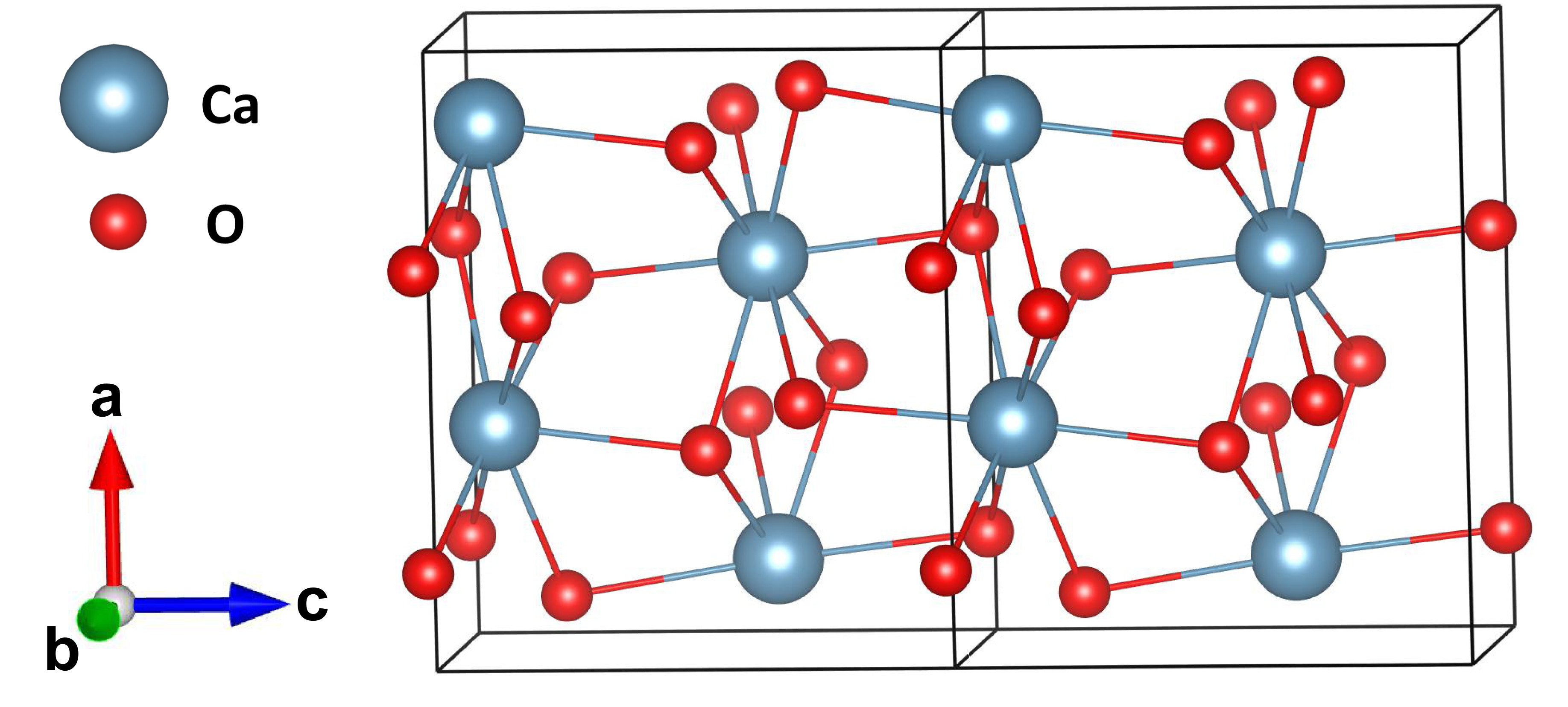 Crystal structure of calcium peroxide obtained from genetic algorithm search. The unit cell is indicated by the black boxes and repeated twice along c axis.